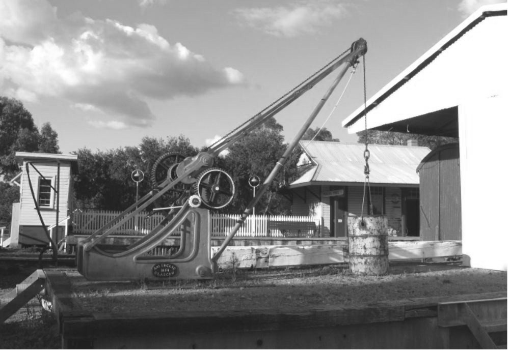 A & J Inglis Crane at Bennett Brook Railway in Whiteman Park, just 16 km from the city of Perth, Western Australia.